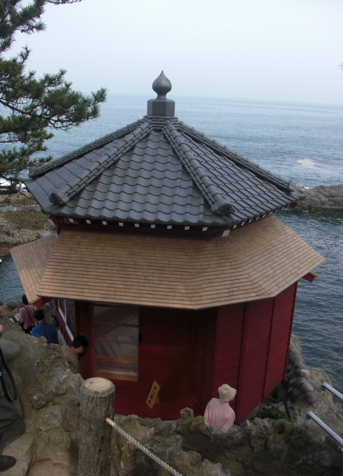 This is the Rokkakudo in Kitaibaraki, Ibaraki, Japan.